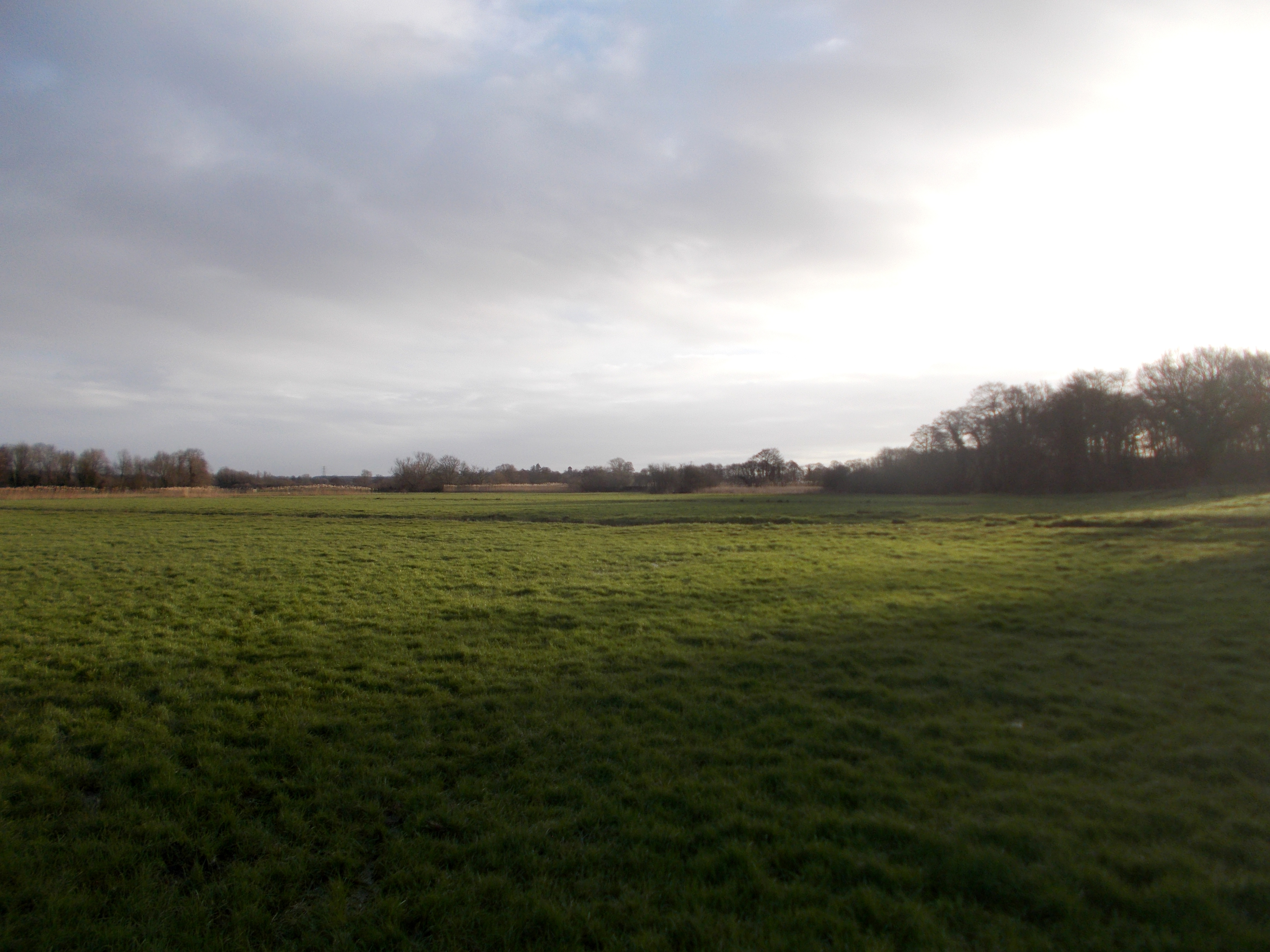 A view of the river Waveney floodplain meadows looking east from Shipmeadow opposite Geldeston Lock towards the site of Barsham Old Hall. The river is away to the left in the foreground but winds across in the distance.